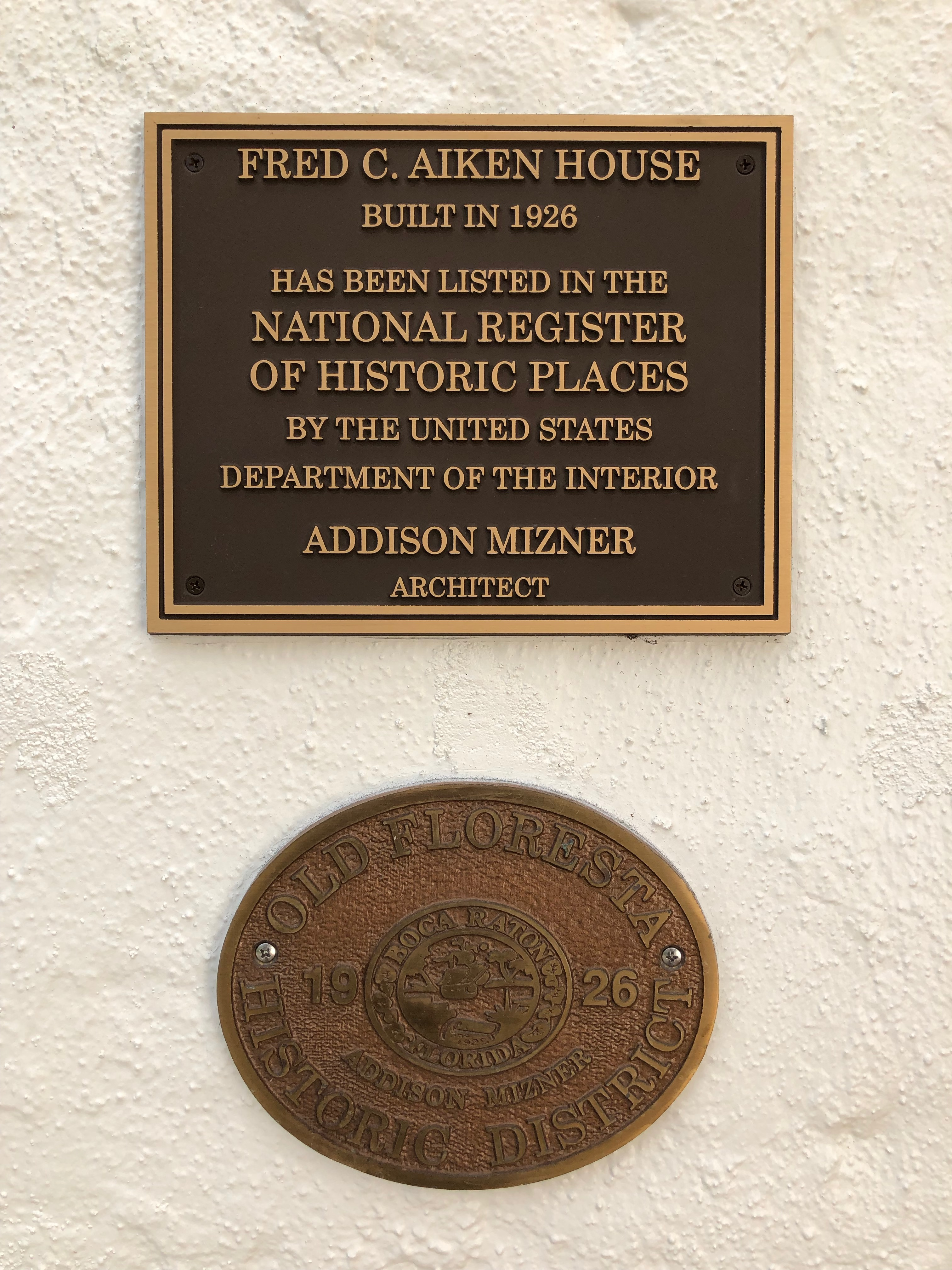 Fred Aiken House, designed by Architect Addison Mizner and built in 1926